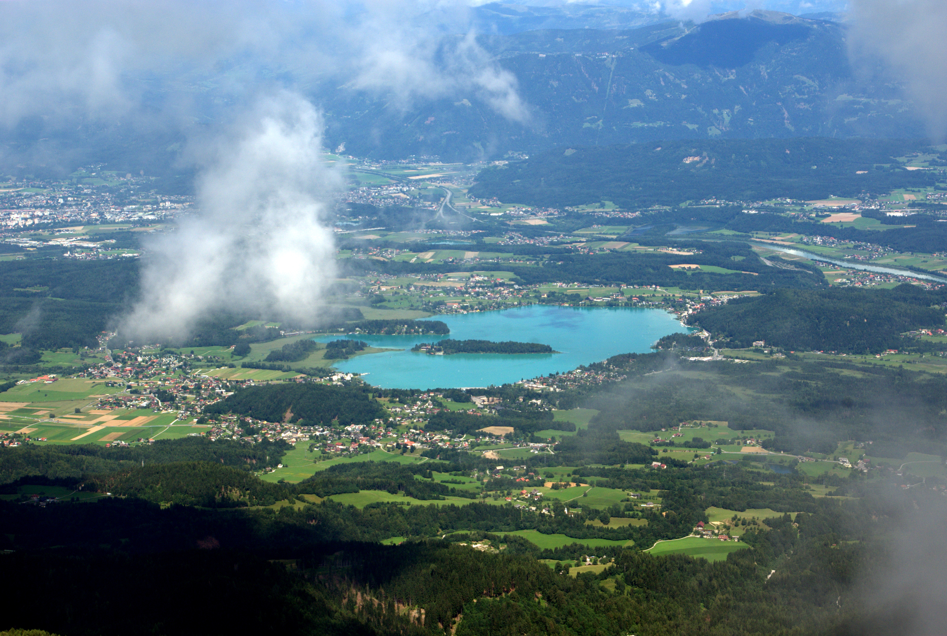 Faaker See (Baško jezero), taken from Mt Kepa.